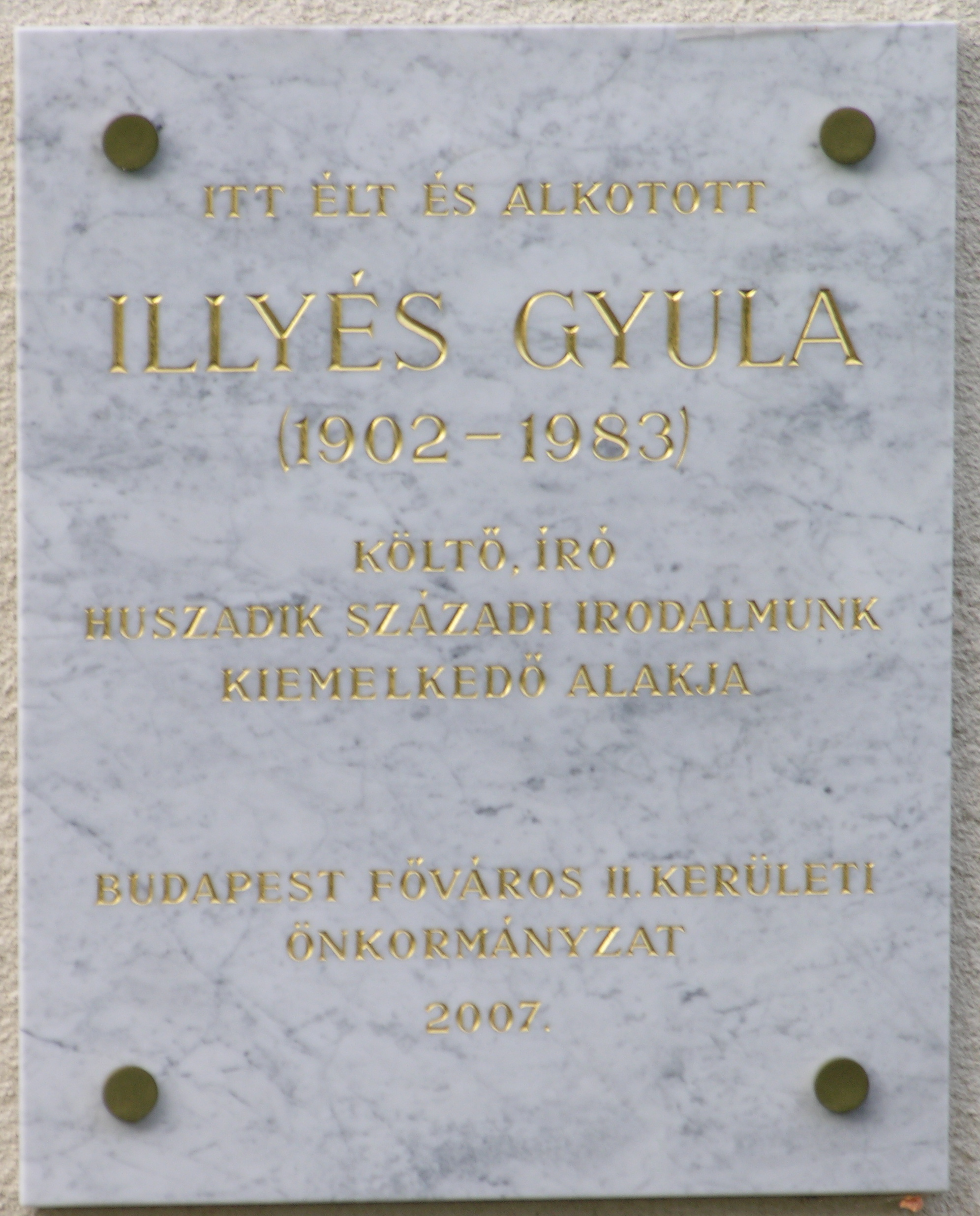 Gyula Illyés commemorative plaque in Budapest District II, Józsefhegyi Street No 9